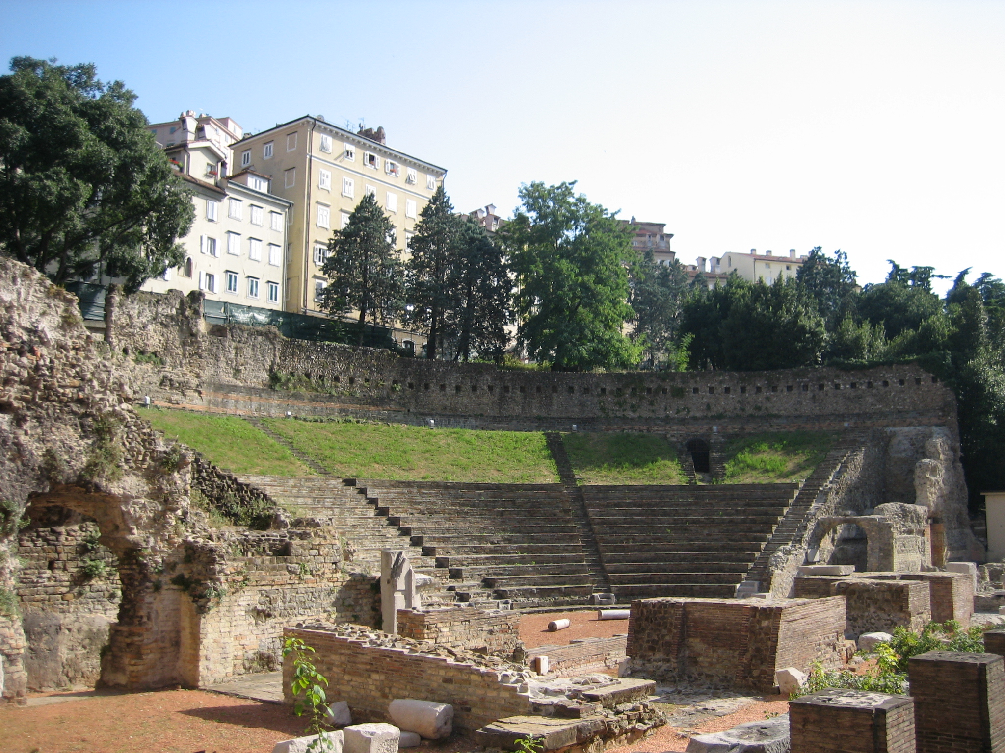 Teatro Romano di Trieste, the Roman Amphitheatre in Trieste